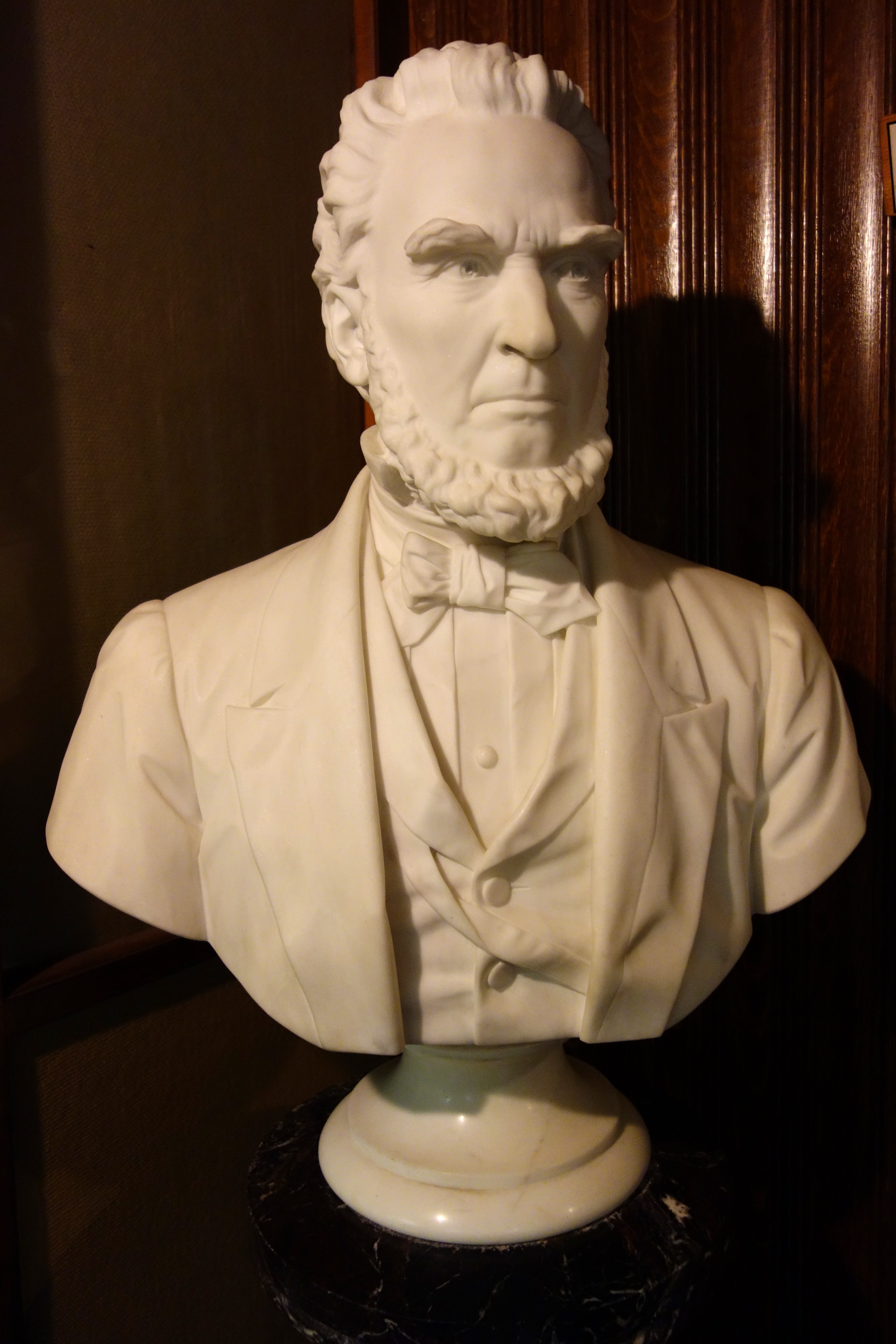 Marble bust of Erastus Fairbanks, now in the Fairbanks Museum and Planetarium, St. Johnsbury, Vermont, USA. This bust is probably by John Quincy Adams Ward; see "The town of St. Johnsbury, Vt: a review of one hundred twenty-five years to the anniversary pageant", Edward Taylor Fairbanks, 1912, page 325. This artwork is now in the public domain because the artist died more than 70 years ago.